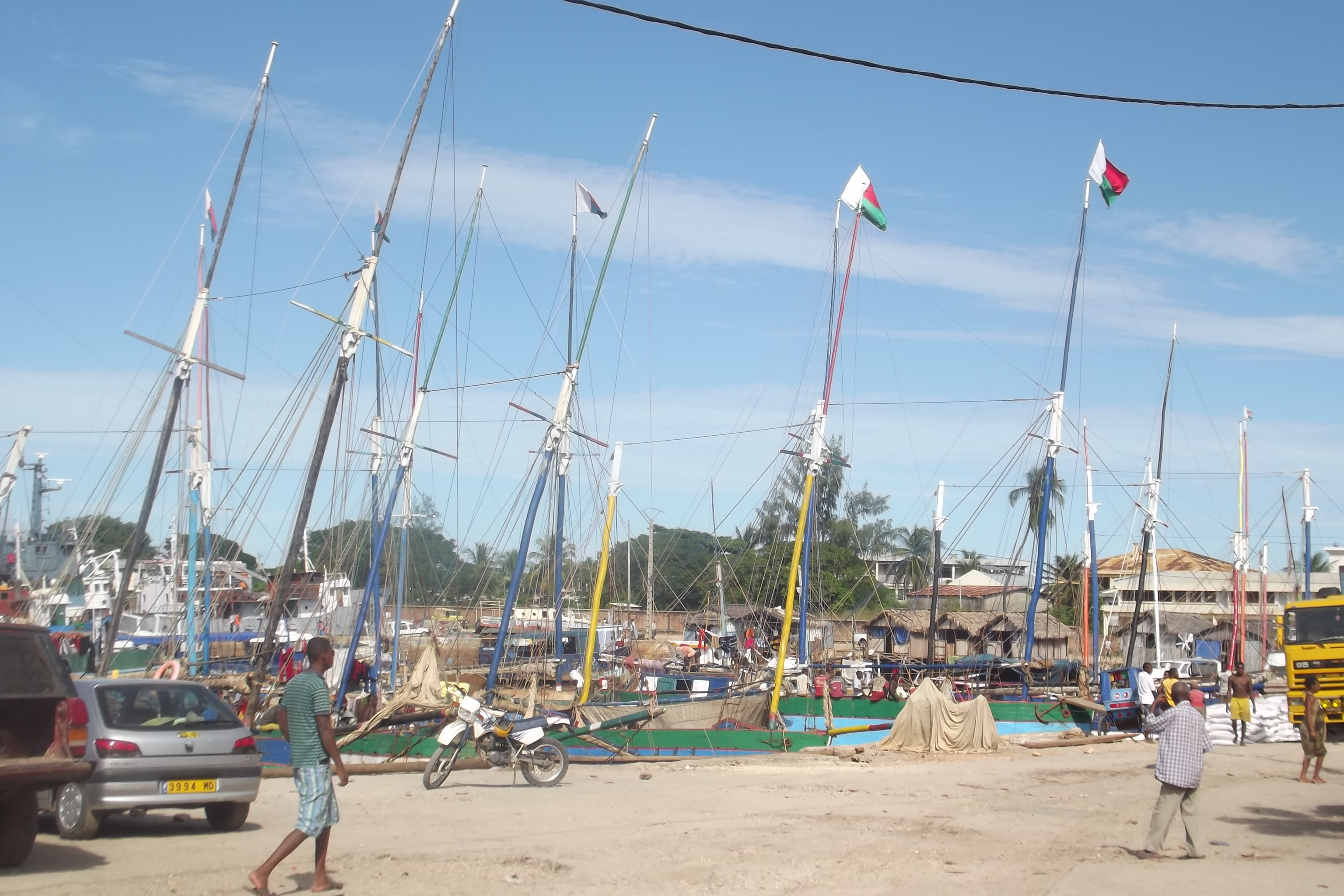 Inner harbour used by botry, ( malagazy for dows and schooners ), wooden sail cargoes plying their trade on the west coast of Madagascar